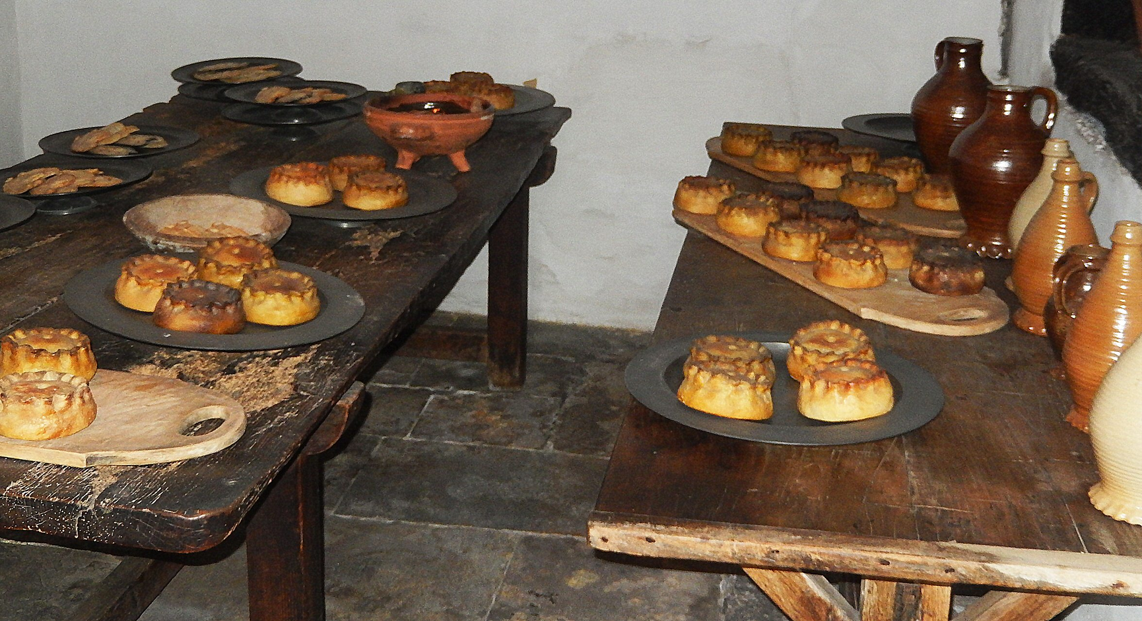 Pies were important in Tudor times, re-enacted here at Hampton Court Palace.